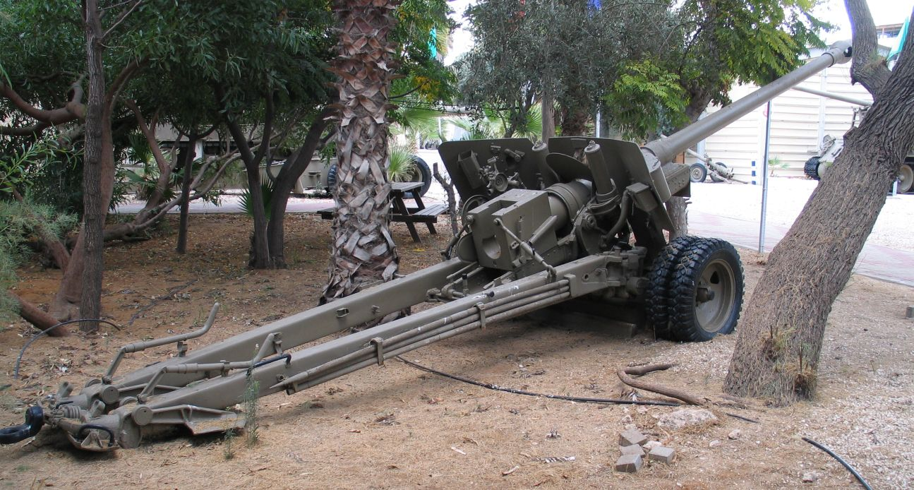 Description: Soviet M1944/BS-3 100 mm field/anti-tank cannon in Batey ha-Osef Museum, Tel Aviv, Israel. 2005. Source: Photo by me, User:Bukvoed.